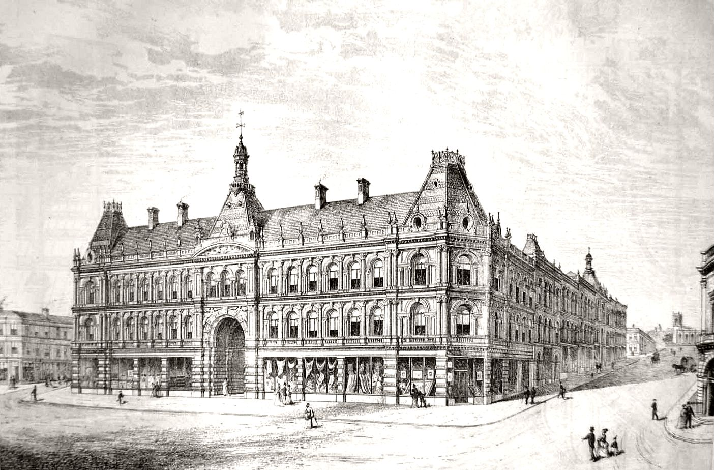 Lithograph of Kirkgate Market, Bradford, completed 1872, demolished 1973. Designed by Lockwood and Mawson.